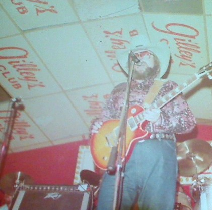 Charlie Daniels at Gilley's 1979 picture taken by my Mom a waitress at Gilleys.